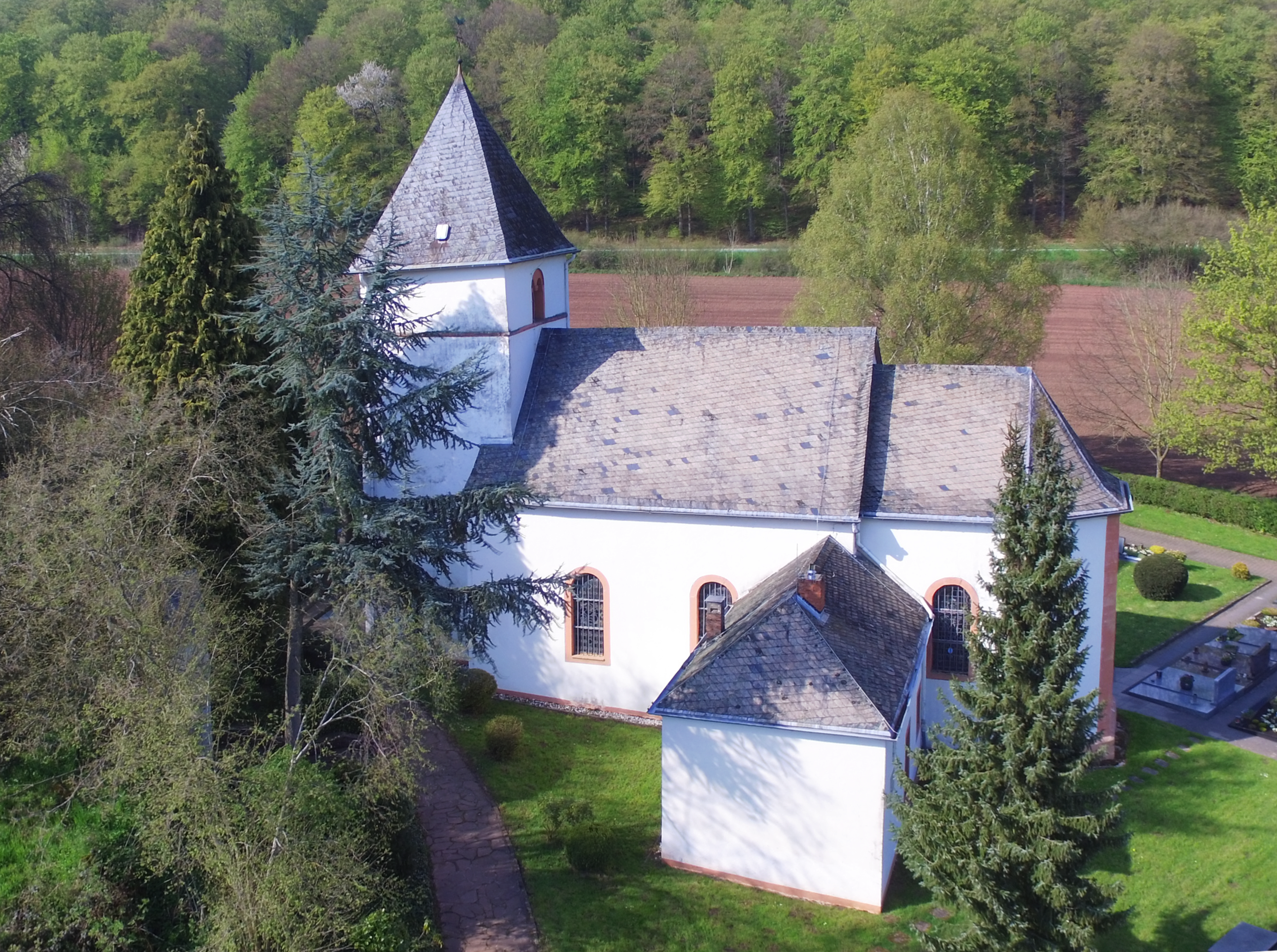 St. James church in Fisch (Saargau, Rhineland-Paltinate, Germany). Parish church of the former now exinct village Rehlingen.